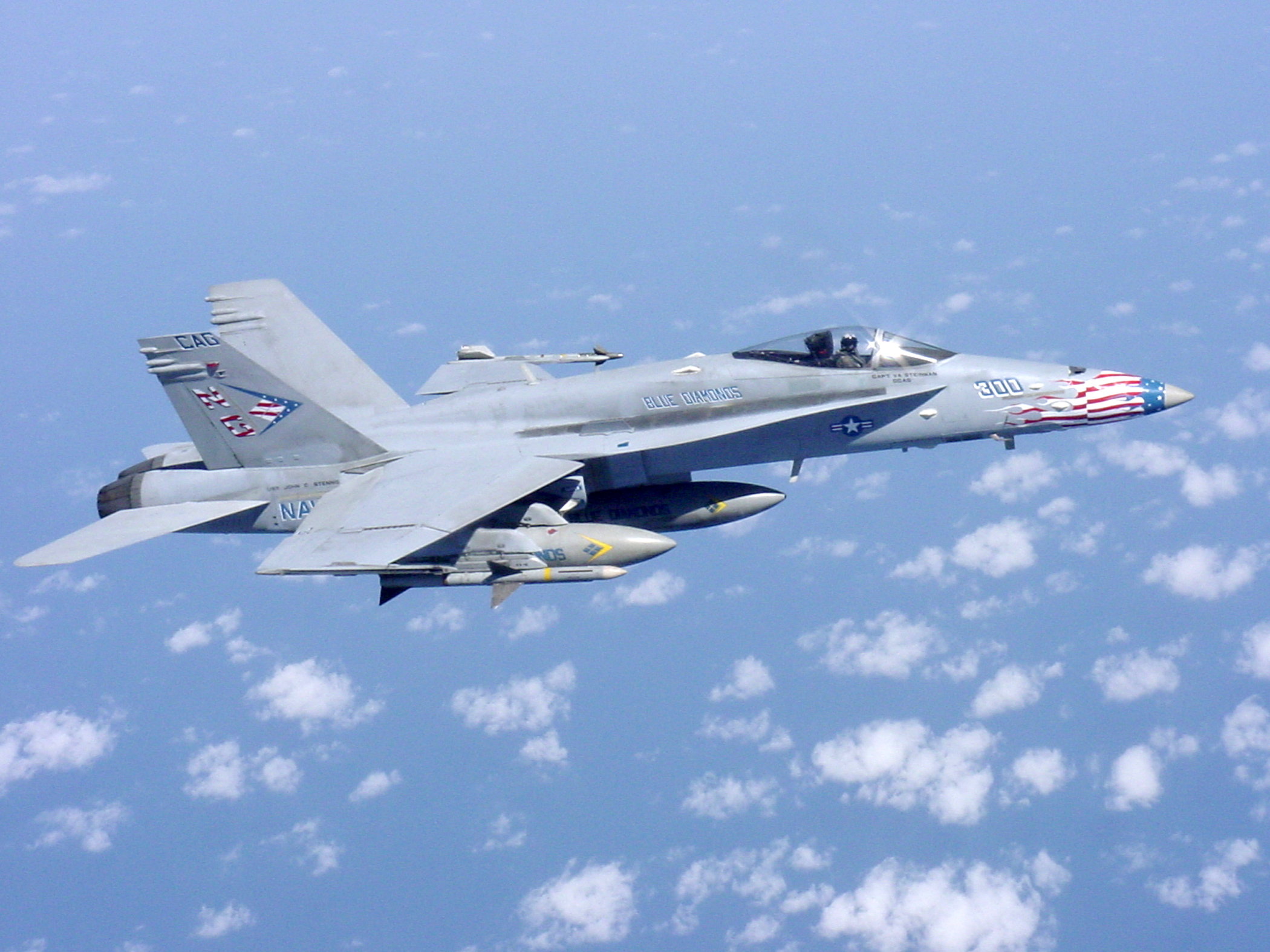 A U.S. Navy McDonnell Douglas F/A-18C Hornet (BuNo 163777) of Strike Fighter Squadron 146 (VFA-146) "Blue Diamonds" conducts a combat mission in support of Operation Enduring Freedom. The aircraft was sporting a new "patriotic" paint scheme and is armed with a 227 kg GBU-12 laser-guided bomb, AIM-7 "Sparrow" medium range and AIM-9M "Sidewinder" short range air-to-air missiles. VFA-146 was assigned to Carrier Air Wing 9 (CVW-9) aboard the aircraft carrier USS John C. Stennis (CVN-74) for a deployment to the Western Pacific and the Indian Ocean from 12 November 2001 to 28 May 2002.